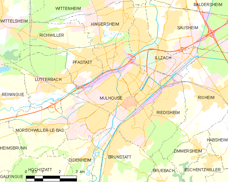 Map of French municipality